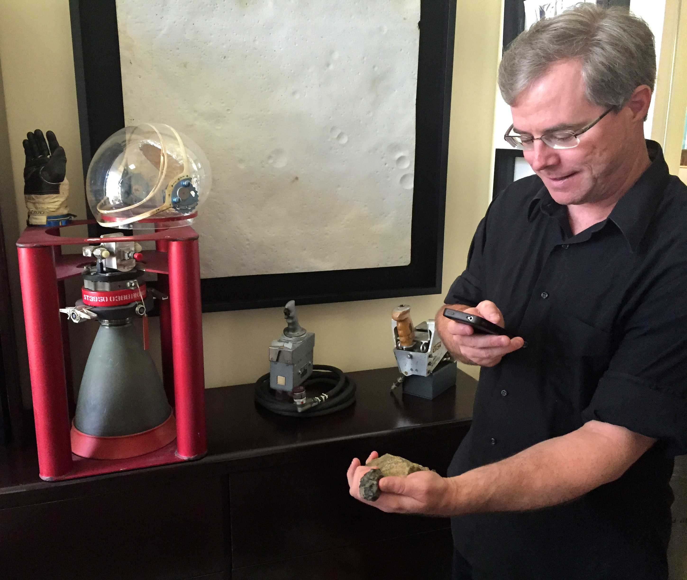 Filming in my office with space artifacts all around…. The latest arrival, in the red frame, is a production engine from the Mars Viking spacecraft program used for the first landing on Mars. Seemed topical! His book is in production to be a movie by Ridley Scott with Matt Damon as the Martian. Constructed from Beryllium, Columbium, and stainless steel by North American Rockwell/Rocketdyne, the engine provided propulsion to take the Mars bound orbiter with its attached lander to Mars and an orbital insertion around the planet. The engine was produced by Rocketdyne for the Jet Propulsion Laboratory (JPL) and includes gimbal attachments which allowed the engine to be adjusted on a rotational axis for in-flight course corrections. It's beryllium thrust chamber was derived from the Minuteman ballistic missile program. NASA sent two Viking spacecraft to Mars in the summer of 1976, and each comprised of an orbiter, which photographed the surface, and a lander, which studied the surface and conducted several experiments. The whole spacecraft orbited the planet for approximately one month, using the images relayed back to mission control to identify a landing site. The landers then separated and soft landed on the Martian surface, touching down in July and September of 1976. It was a special honor to hand Andy his first rock from Mars. I am going to try to let him get one of his own.